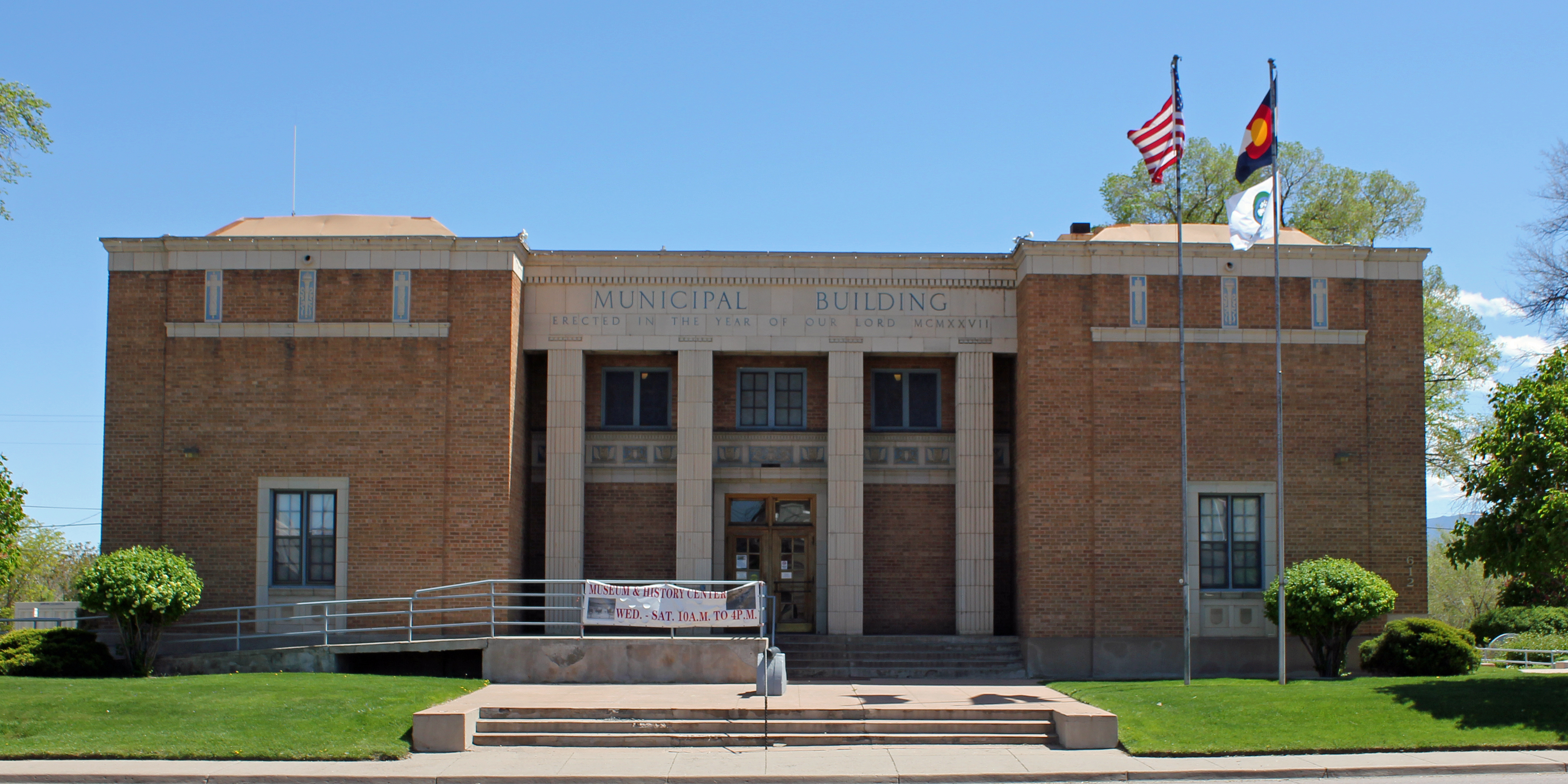 The Cañon City Municipal Building, located at 612 Royal Gorge Boulevard in Canon City, Colorado. The building is listed on the National Register of Historic Places.